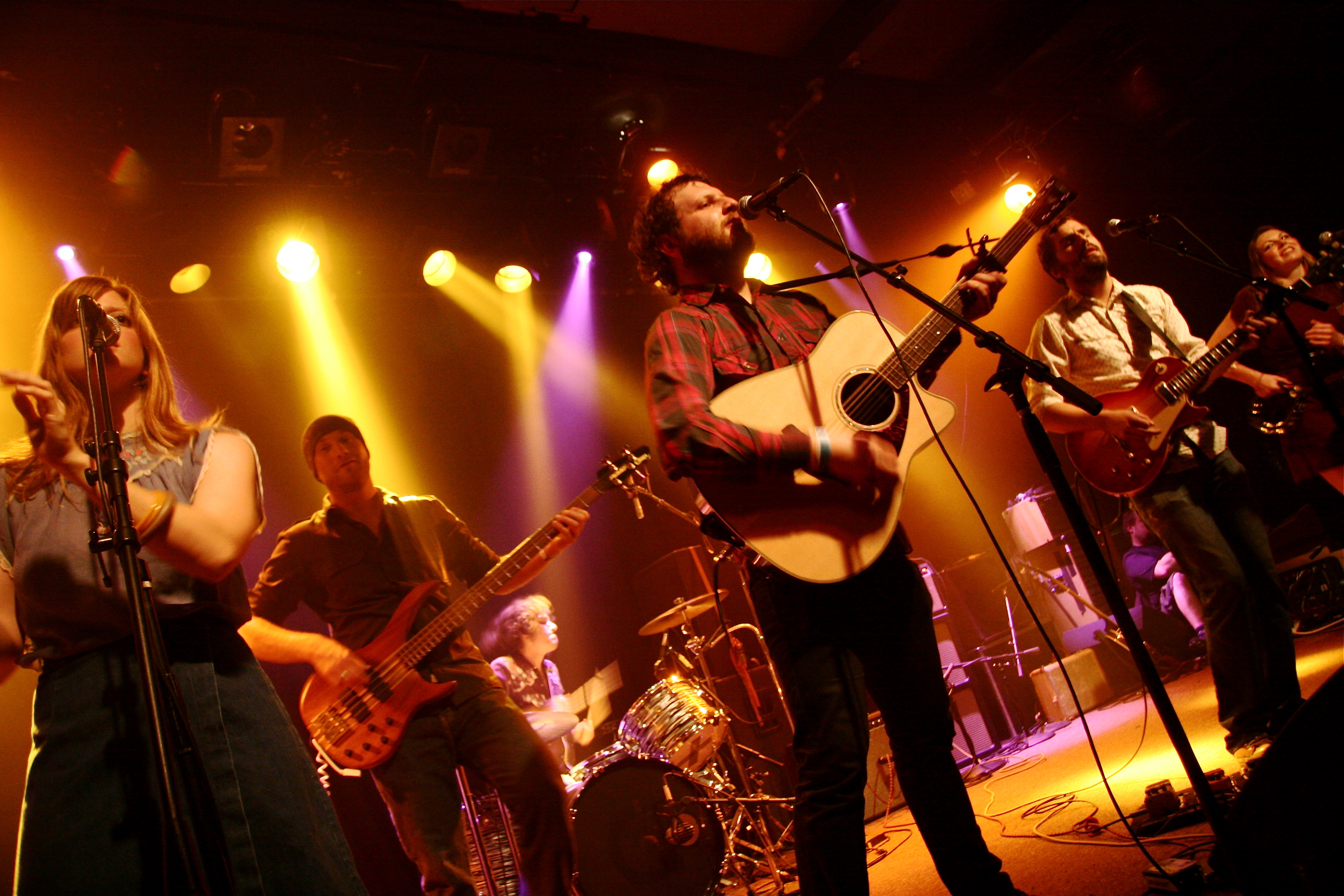 Or, The Whale